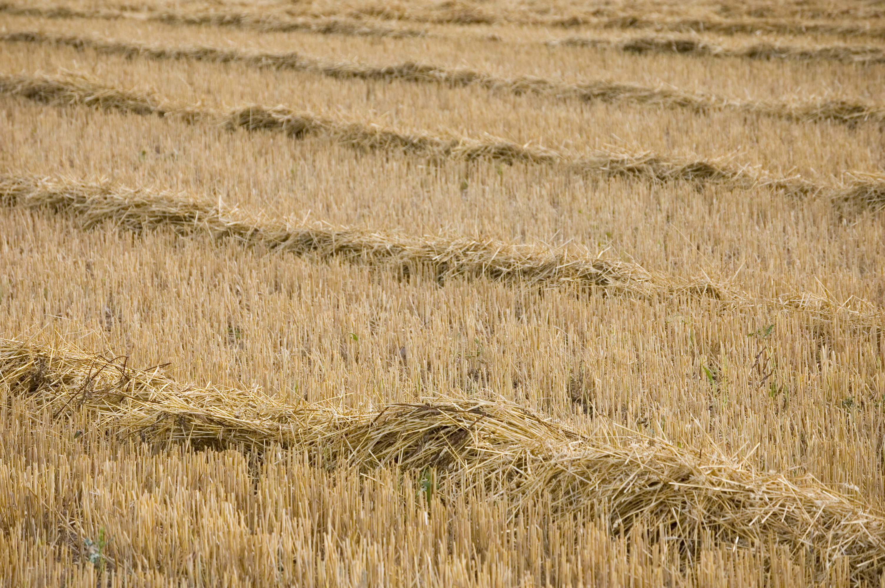 Harvest Camera: Nikon D50 Lens: AF-S DX Zoom-Nikkor 55-200 mm 1:4-5,6G ED